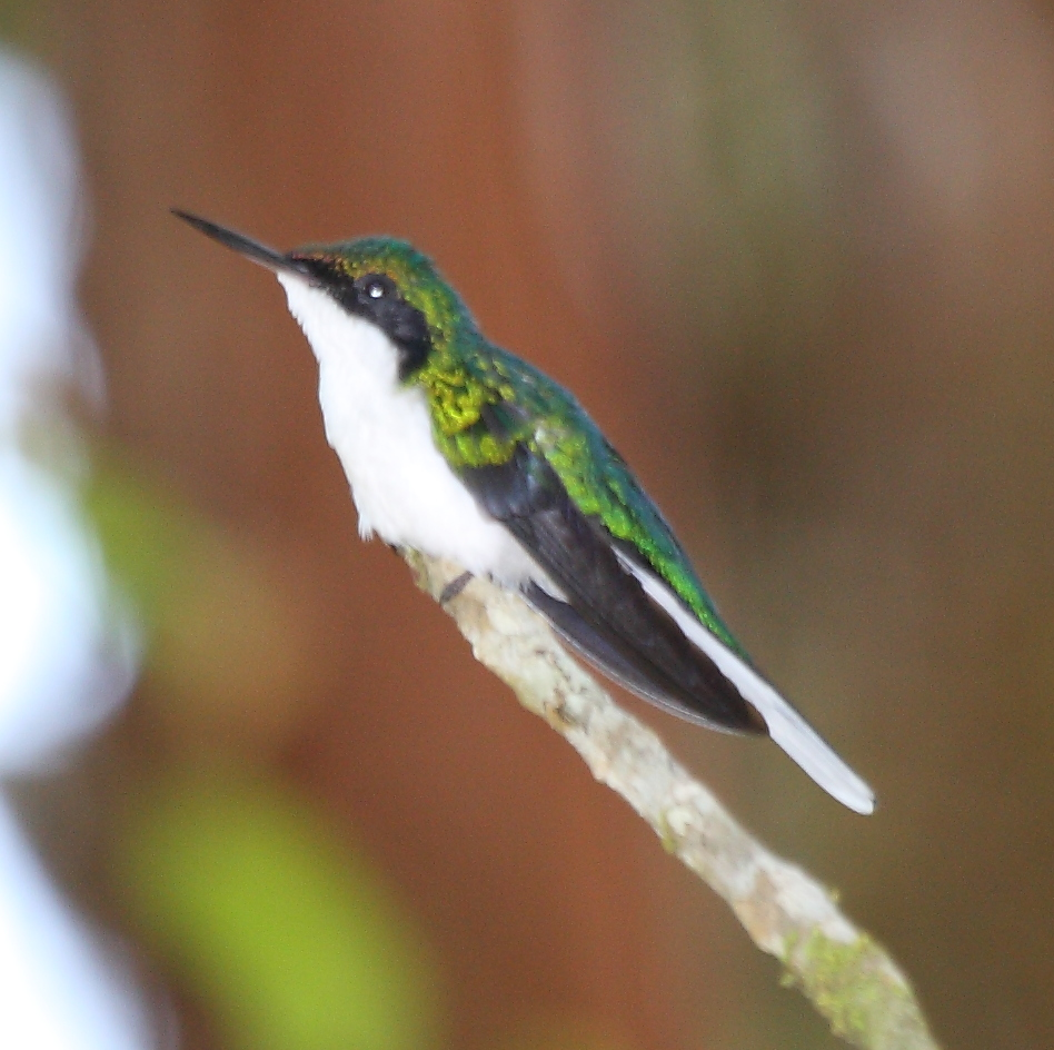 Purple-crowned Fairy (Heliothryx barroti), female. Taken in Panama.